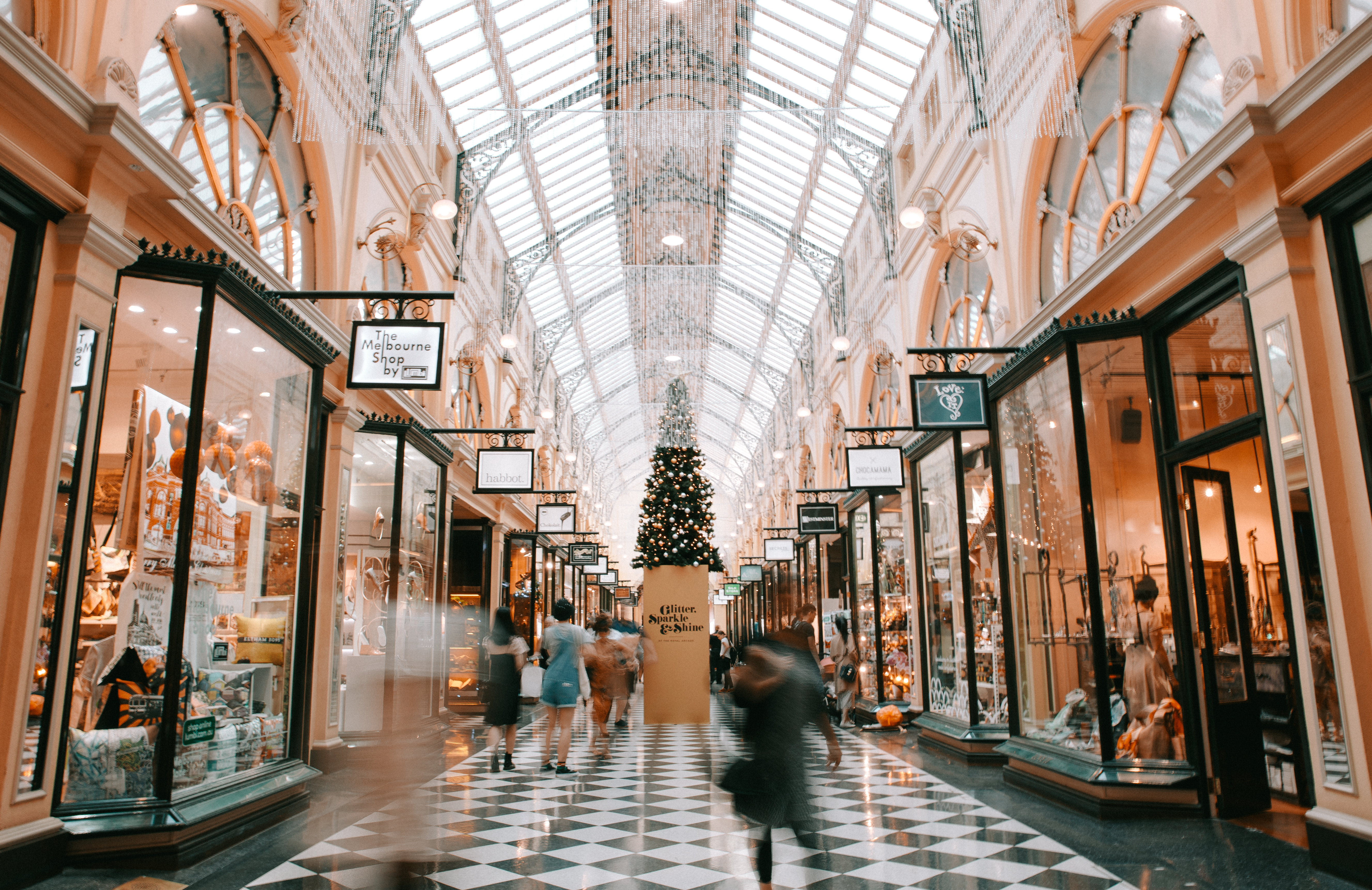 Melbourne, Australia